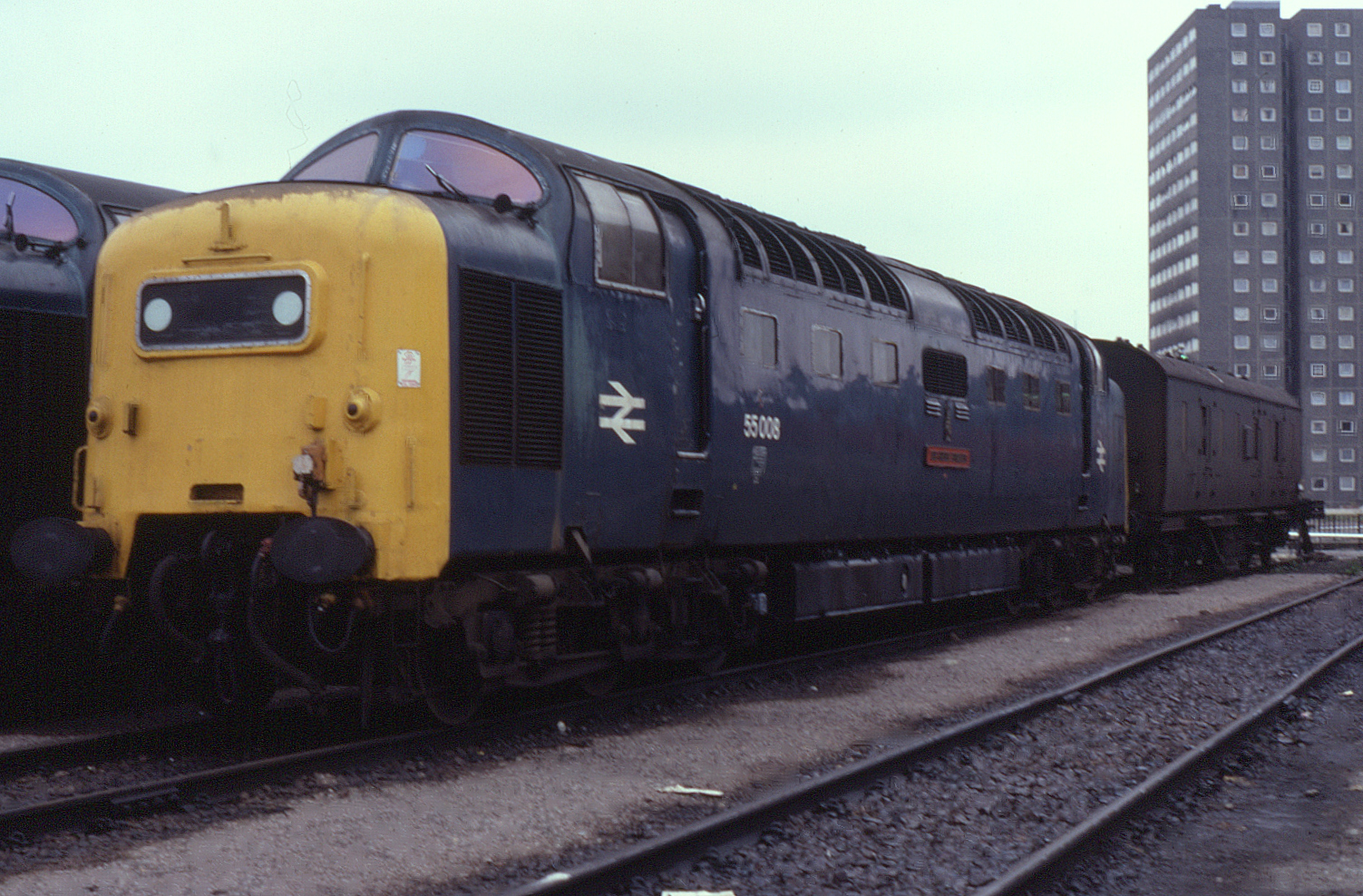 55008 "The Green Howards" sits at Finsbury Park depot in North London on 14 November 1981. The depot was built in 1960 specifically for maintenance of locos working on the East Coast mainline including the class 55 "Deltics". With the move over to HSTs on the ECML, the depot was downgraded in the early 1980s and closed altogether in October 1983.